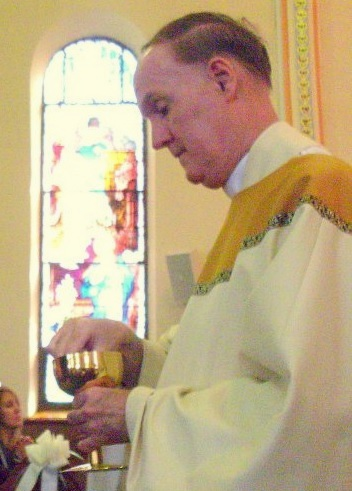 2009 Photo of Michael Fitzgerald, Auxiliary Bishop of the Archdiocese of Philadelphia, at the 140th Anniversary Mass for Immaculate Conception Parish in Northern Liberties.